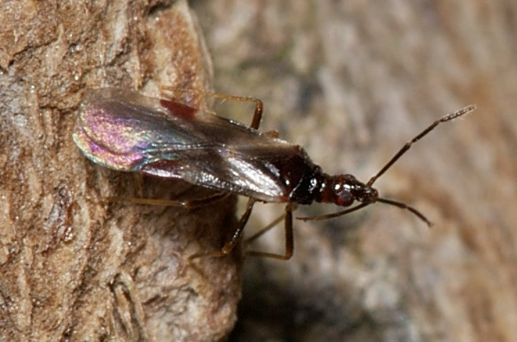 Loricula sp. (Anthocoridae) from Koenigsforst near Cologne, Germany. Very small, at most about 2 mm body length.